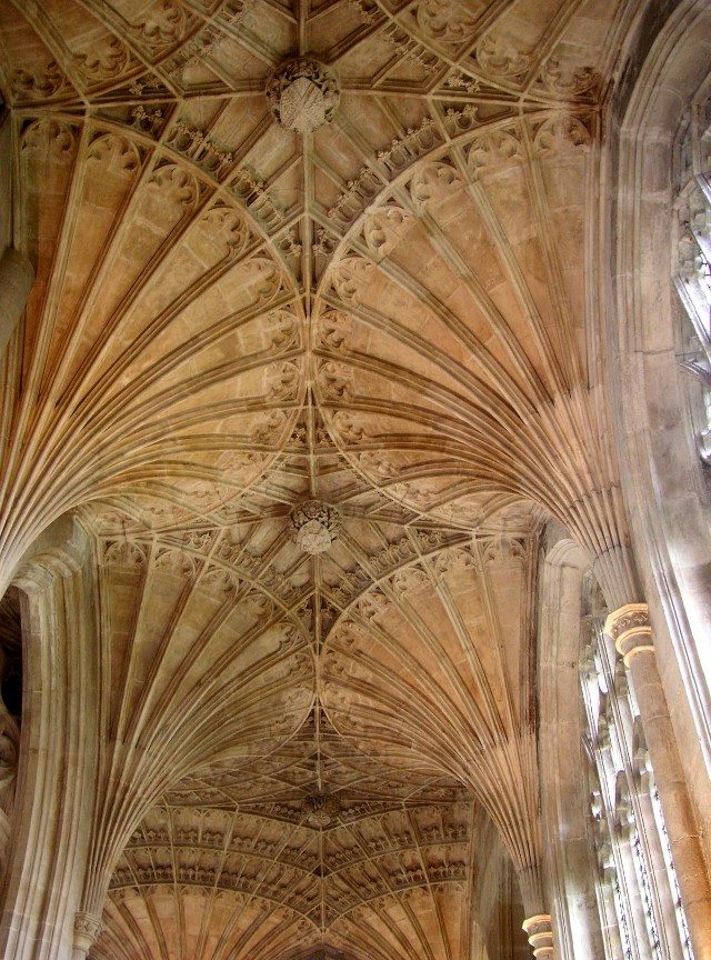 Peterborough Cathedral, the fan vaul of the retrochoir, 1496-1508